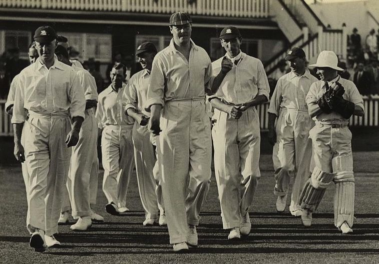 English cricket team at the test match held in Brisbane, 1928. Cropped version of this Commons image.